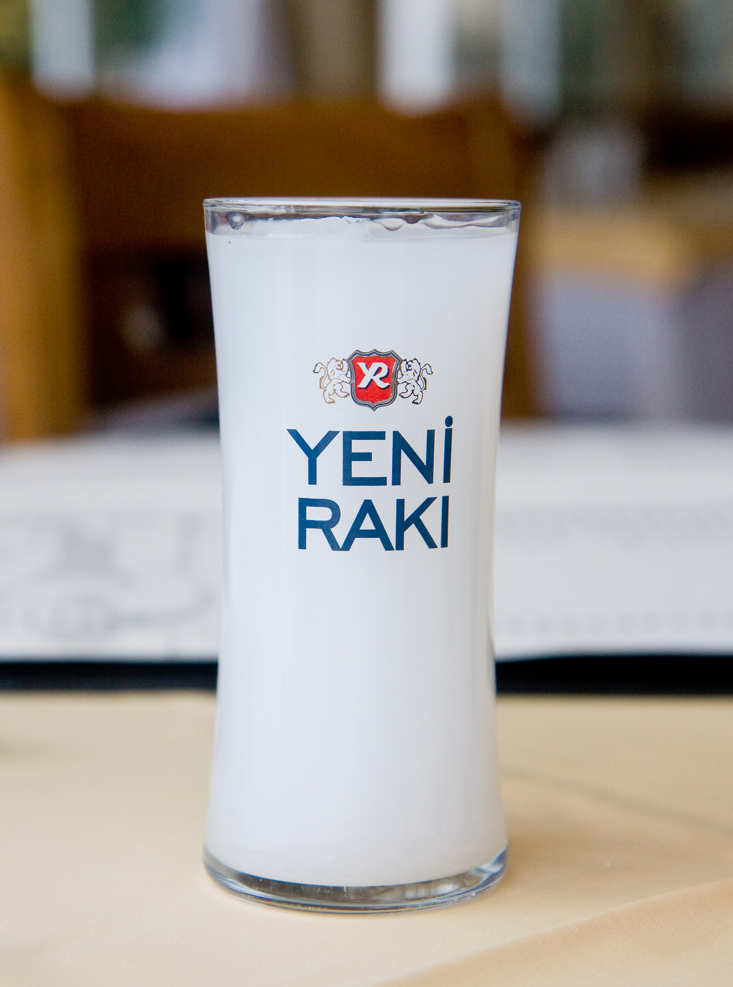 Rakı (pronounced [ɾaˈkɯ]) is the most popular alcoholic drink in Turkey. It is considered as the national alcoholic beverage of Turkey. It's an anis spirit.